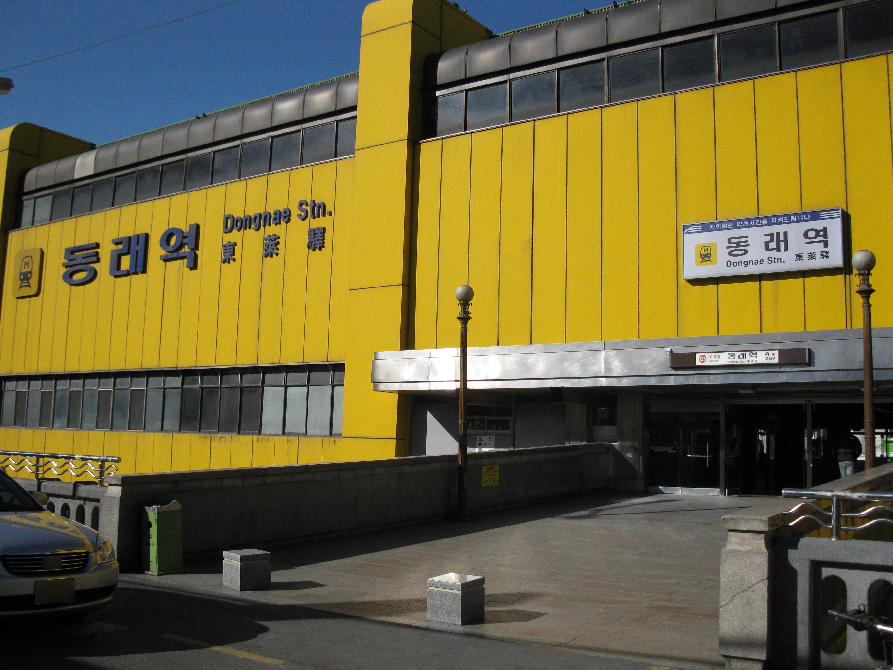 The no.2 entrance to Dongnae Station on the Busan Subway Line 1